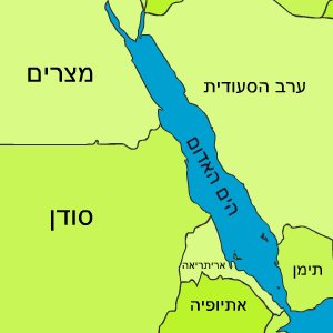 Red sea map